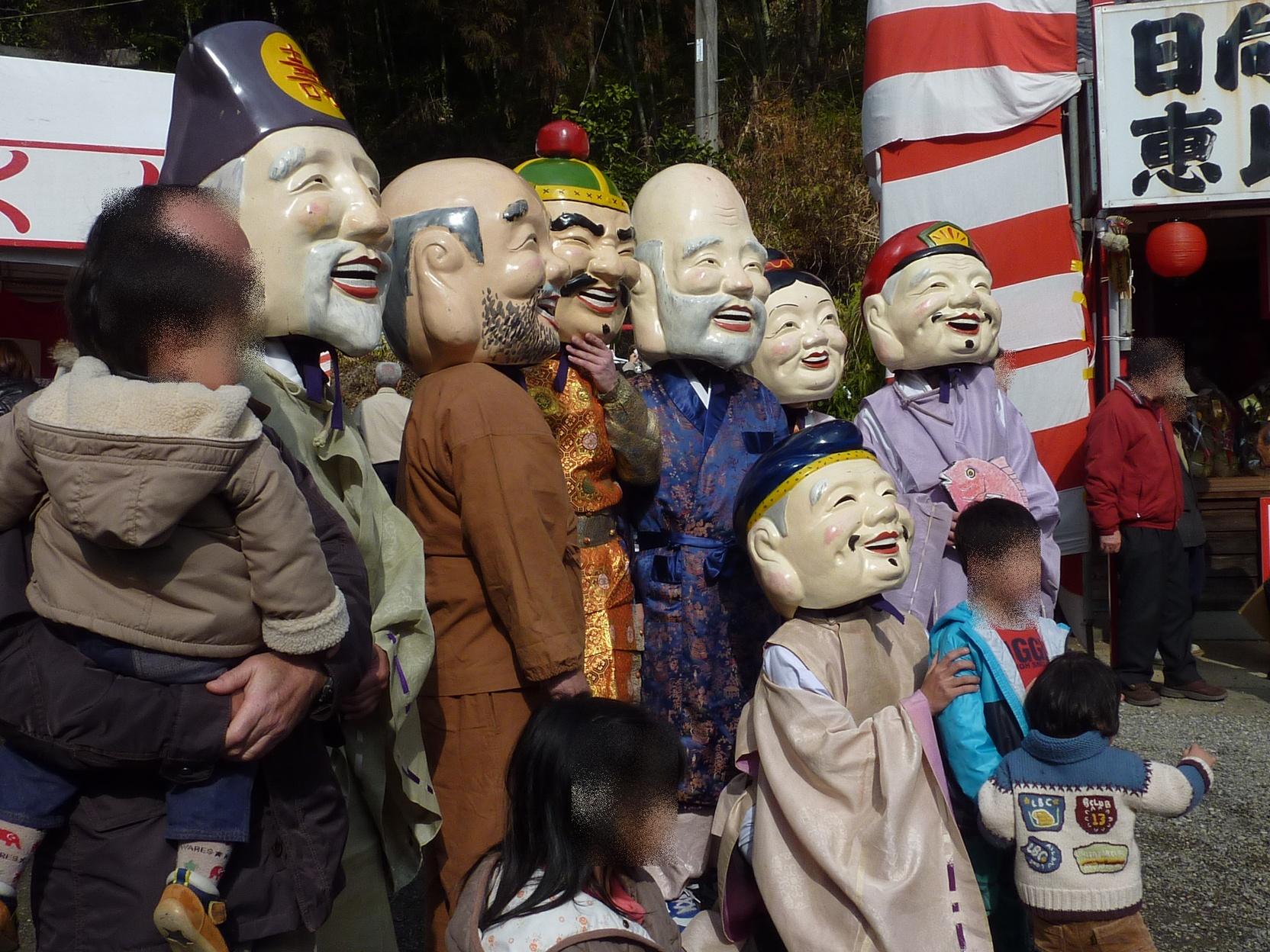 The Seven Lucky Gods of Imayama Ebisu Shrine (Nobeoka City, Miyazaki Prefecture, Japan)